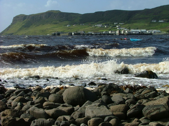 A windy day on Uig Bay. Uig pier in the distance.Certainly a bit choppier than 944929